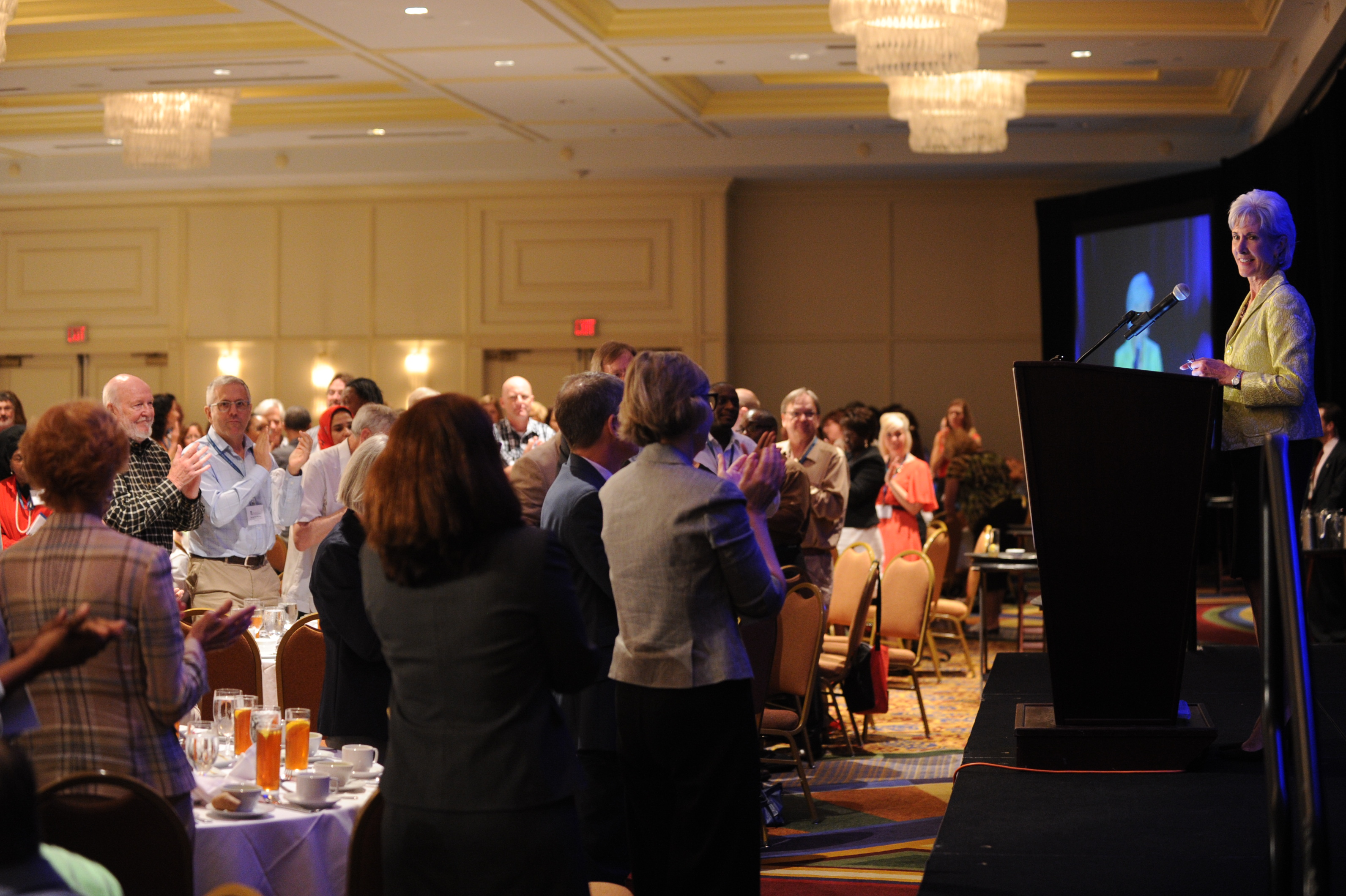 HHS Secretary Sebelius speaks to a room at the National Alliance to End Homelessness, at the Renaissance Washington DC Hotel, July 17, 2012. (HHS photo by Chris Smith)